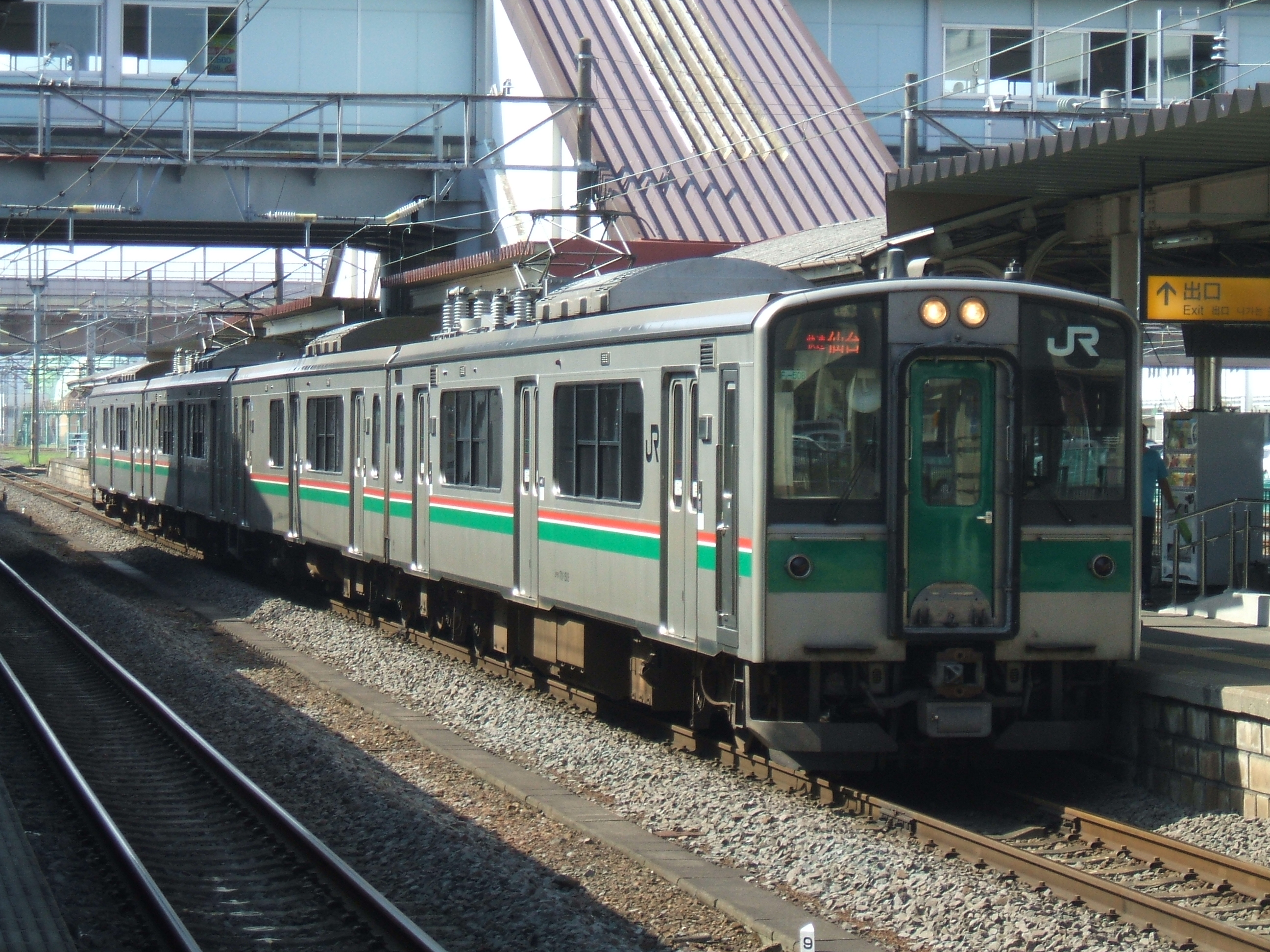 JR East 701-1500 series EMU on "Rapid Sendai City Rabbit" service at Fukushima Station